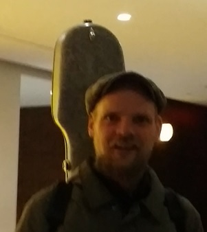 Mikko Perkola photographed in Montréal , Québec, Canada in the MBAM Bourgie Hall.